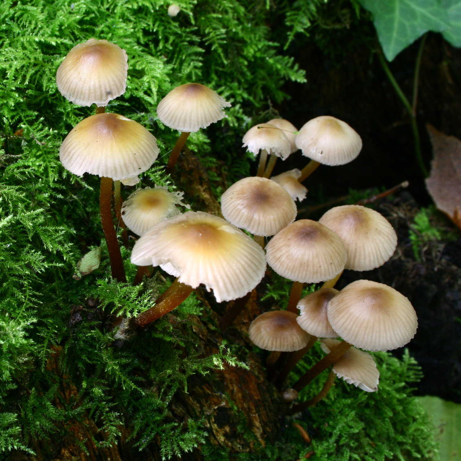 Mycena inclinata in a forest near Marly-le-Roi, France.